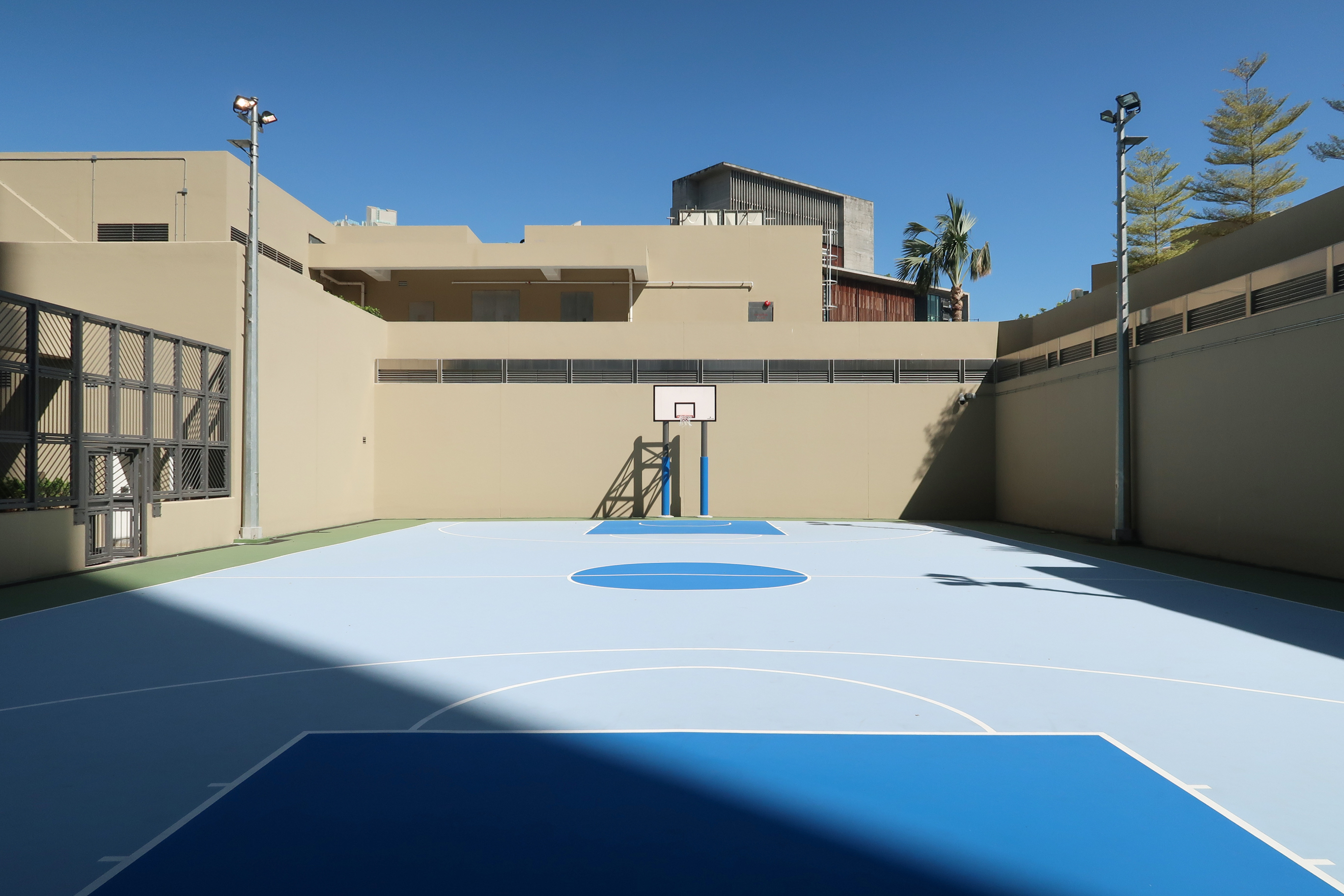 Ping Yan Court Basketball Court